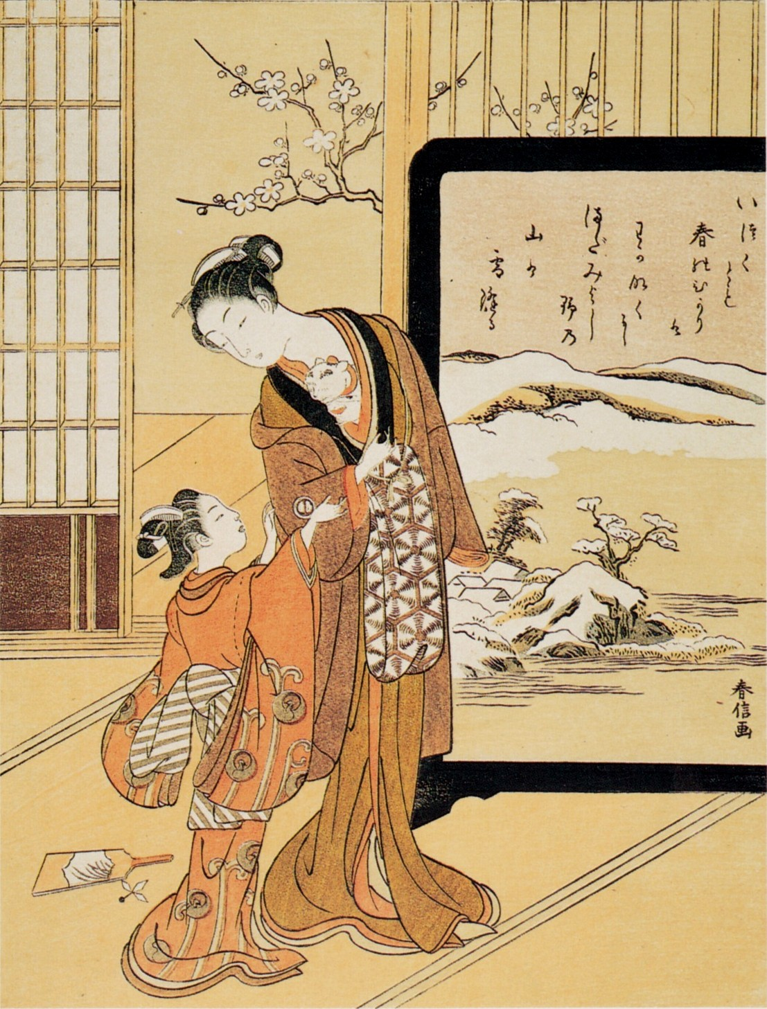 Two persons